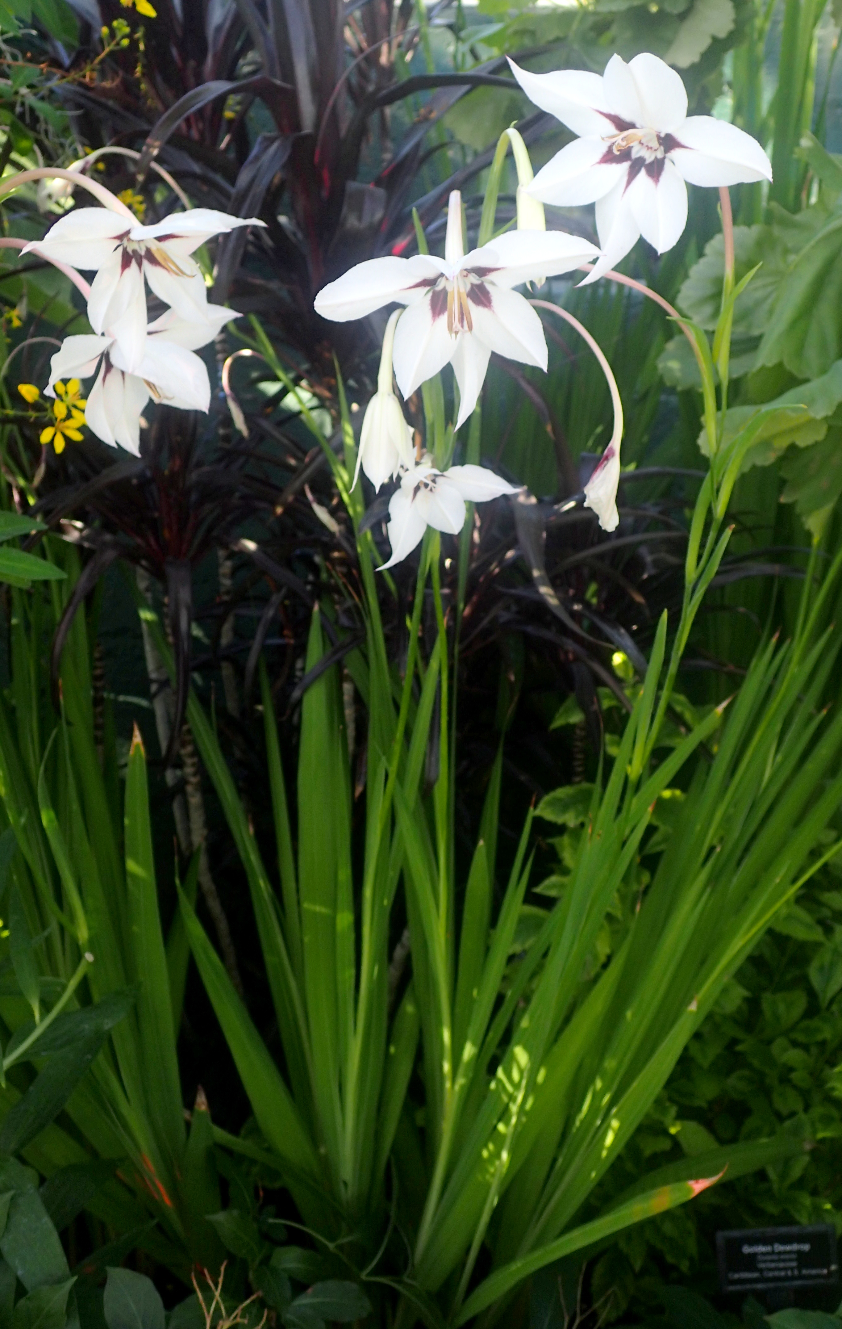 Gladiolus murielae at Garfield Park Conservatory